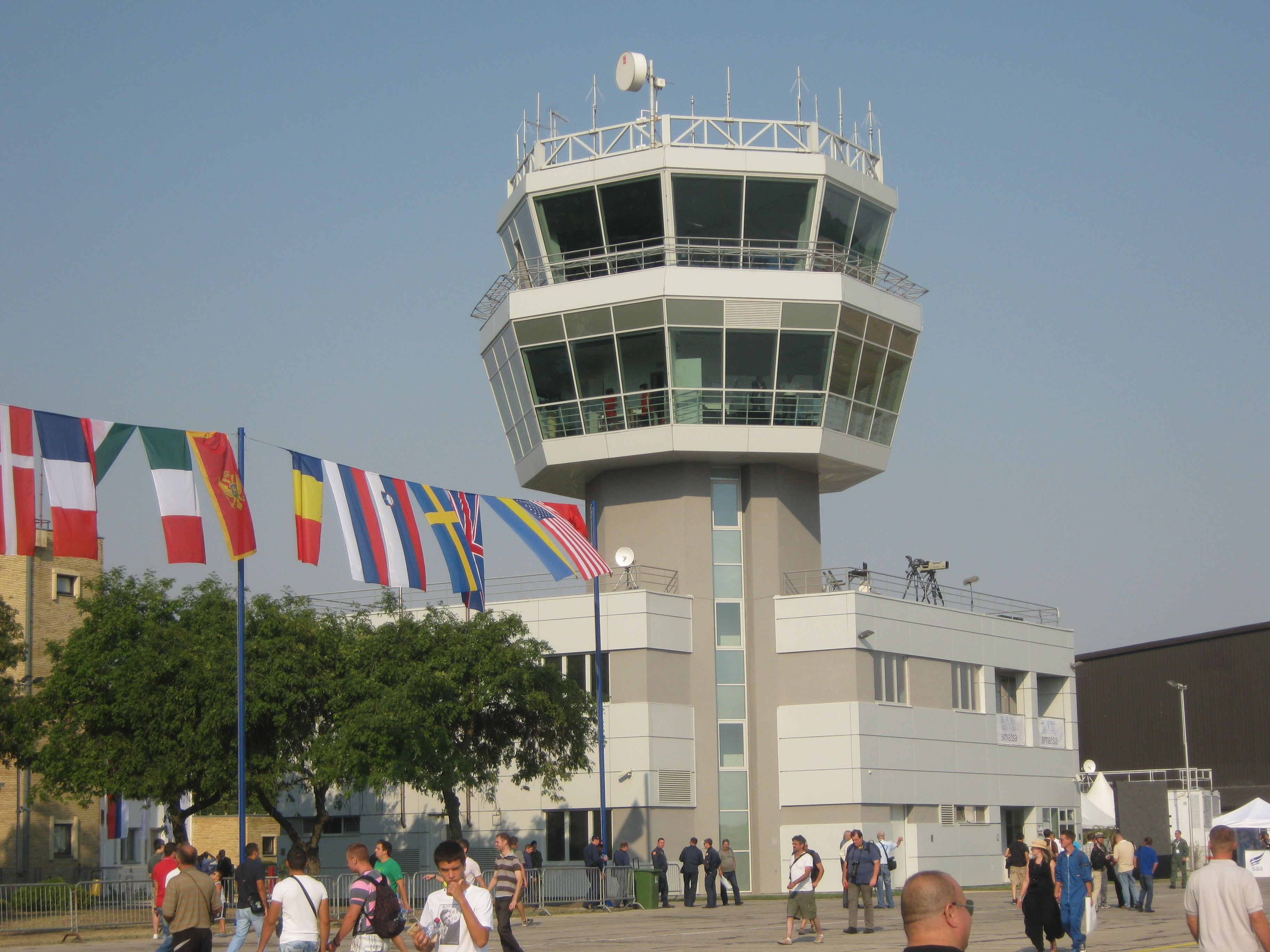 Batajnica Air Base control tower during Batajnica Airshow, 2012Српски (ћирилица): Контролни торањ војног аеродрома током аеромитинга 2012.г., посвећеног прослави 100 година од оснивања војног ваздухопловства у Србији.